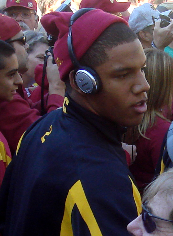 Taylor Mays, walking with the rest of the USC Trojans football team towards Notre Dame Stadium.